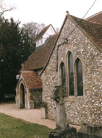 St Laurence's Church, Cholesbury